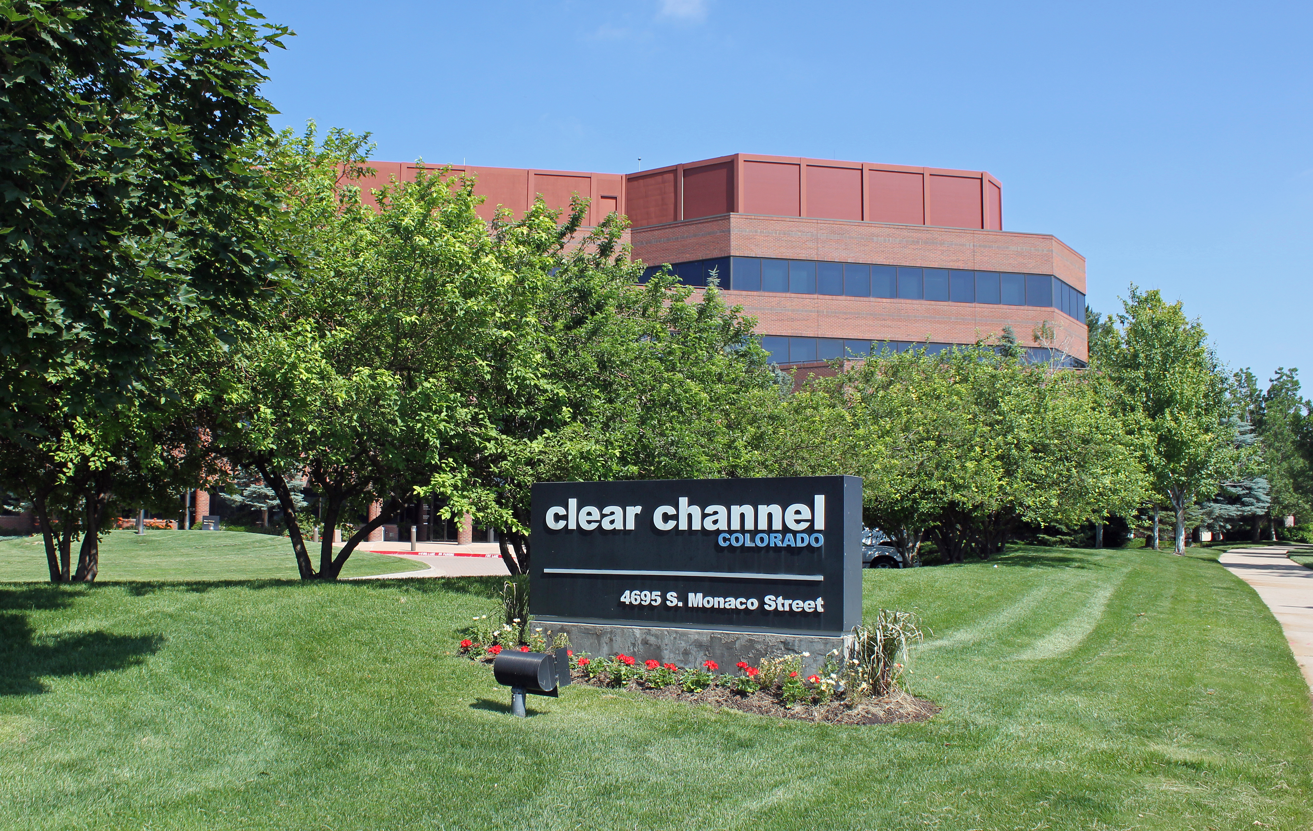 The offices and studios of Clear Channel Communications, located at 4695 South Monaco Street in Denver, Colorado. A sign in the picture reads "Clear Channel Colorado." A picture of the same location showing a sign with the company's later name is here.